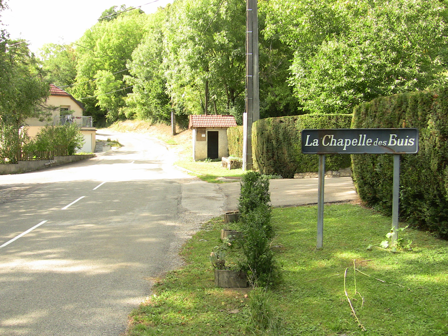 Road sign announcing the entrance in the hamlet of « Chapelle des Buis » (en: « Chapel of boxwood ») located in the south of Besançon (Doubs, France)